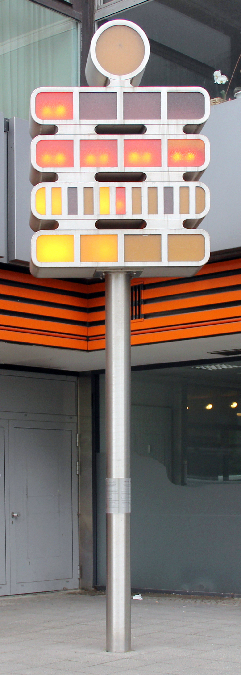 Memorial, "Berlin-Uhr" by Dieter Binninger, 1975, Budapester Straße 45, Berlin-Charlottenburg, Germany. Displayed time: 09:32